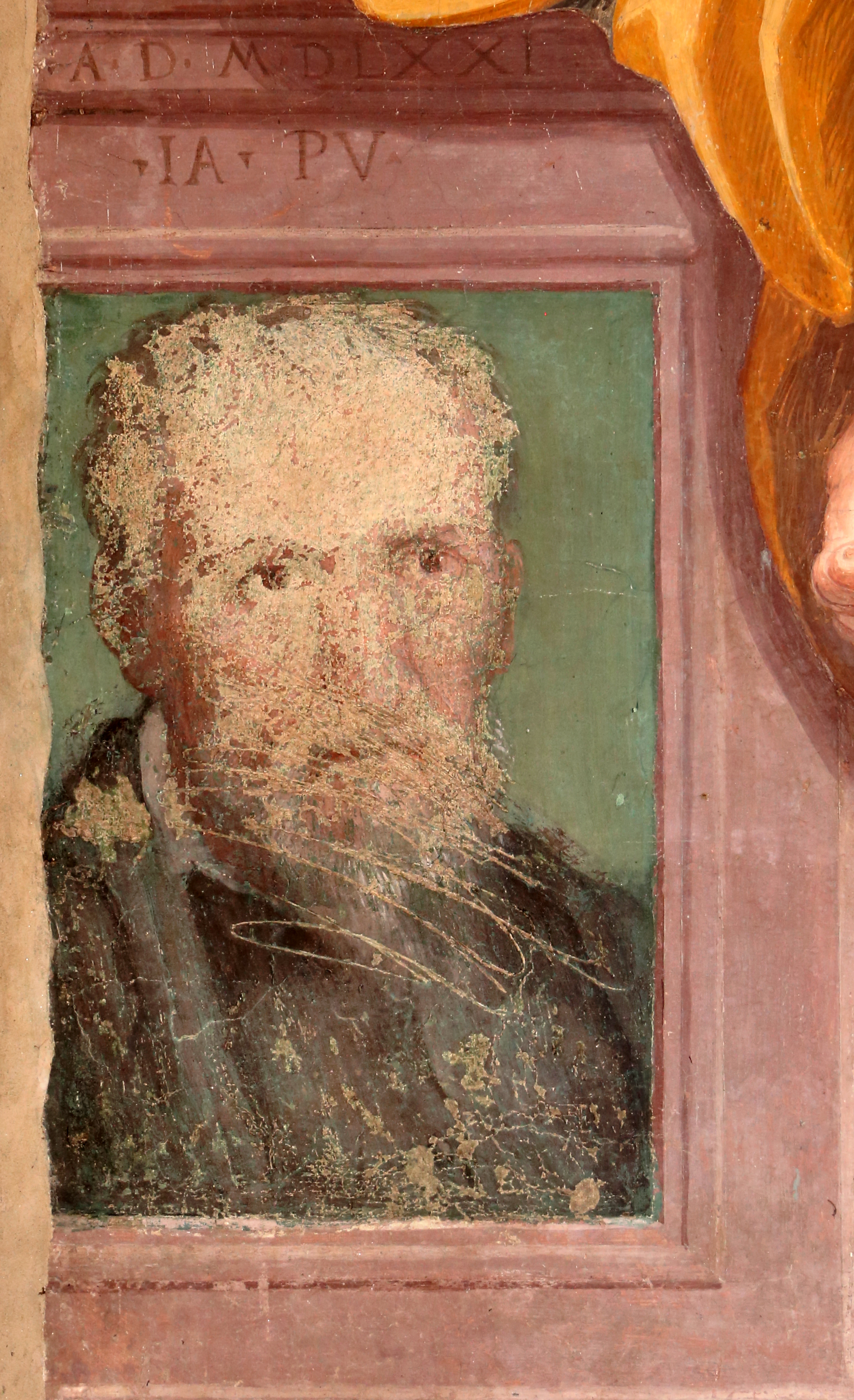 Cappella di San Luca (Florence)